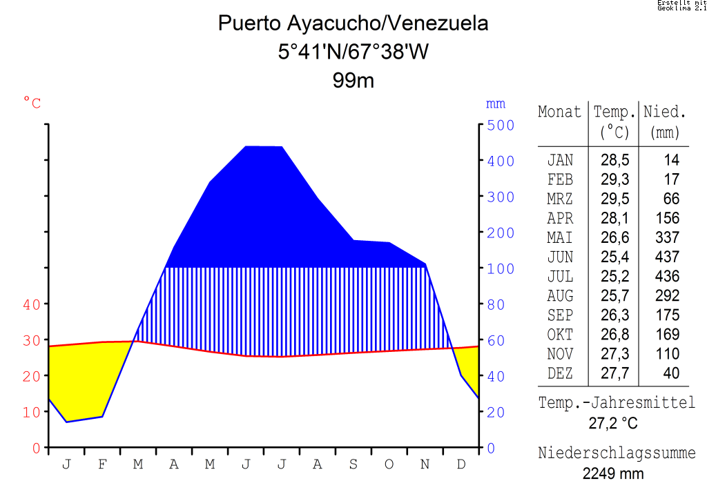 climate chart in the format by Walther and Lieth, metric, °Celsisus and millimeters, made with Geoklima 2.1 DateOctober 2006SourceSoftware: Geoklima 2.1 Website GeoklimaAuthorHedwig in WashingtonPermission (Reusing this file) Own work, attribution required (Multi-license with GFDL and Creative Commons CC-BY 2.5)